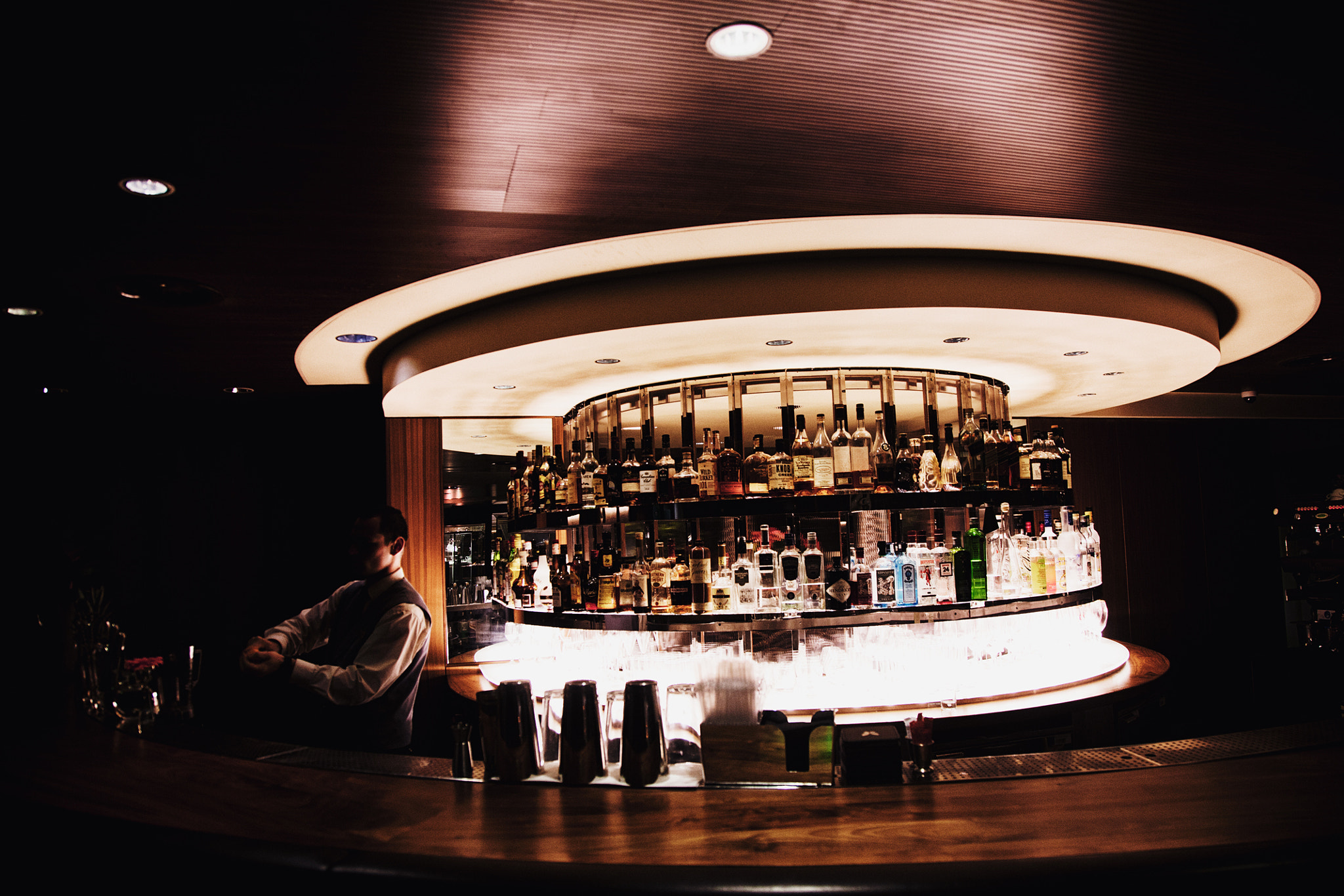 500px provided description: Great accent, great guy. [#winter ,#night ,#christmas ,#bar ,#evening ,#hotel ,#whiskey ,#restaurant ,#indoor ,#alcohol ,#dinner ,#dessert ,#alcoholic ,#rum ,#drinks ,#food and drink ,#old fashioned ,#review ,#hilton ,#cocktails ,#fine dining ,#food photography ,#twickenham ,#tb ,#pina colada ,#syon park ,#middlesex ,#hounslow ,#haute cuisine ,#food journalism ,#tasting britain ,#the capability ,#syon lane ,#hilton syon park ,#the capability syon park ,#english food]